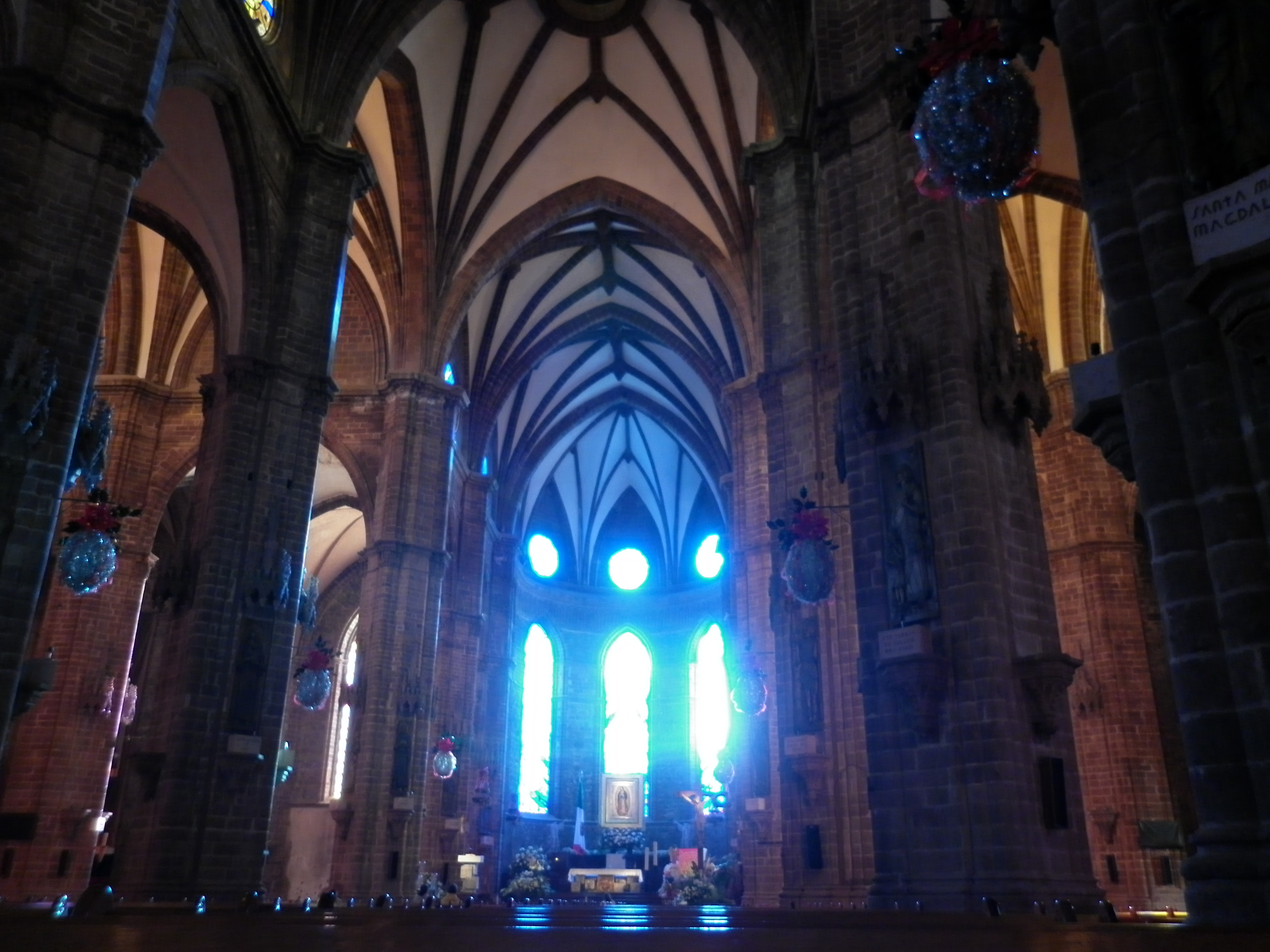 Interior of the expiatory temple in Zamora Michoacán.